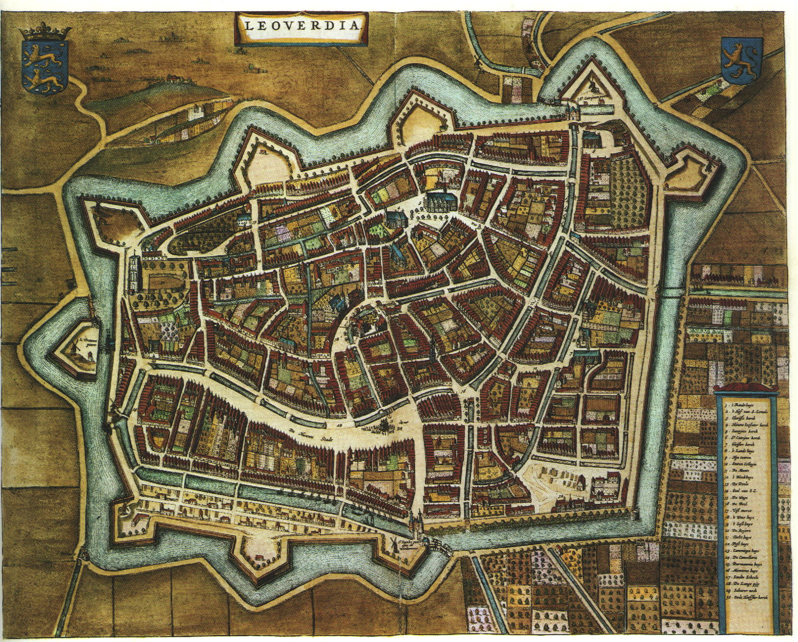 Leeuwarden from"Blaeu's Toonneel der Steden"(Dutch city maps, Edited by Willem and Joan Blaeu), 1652.